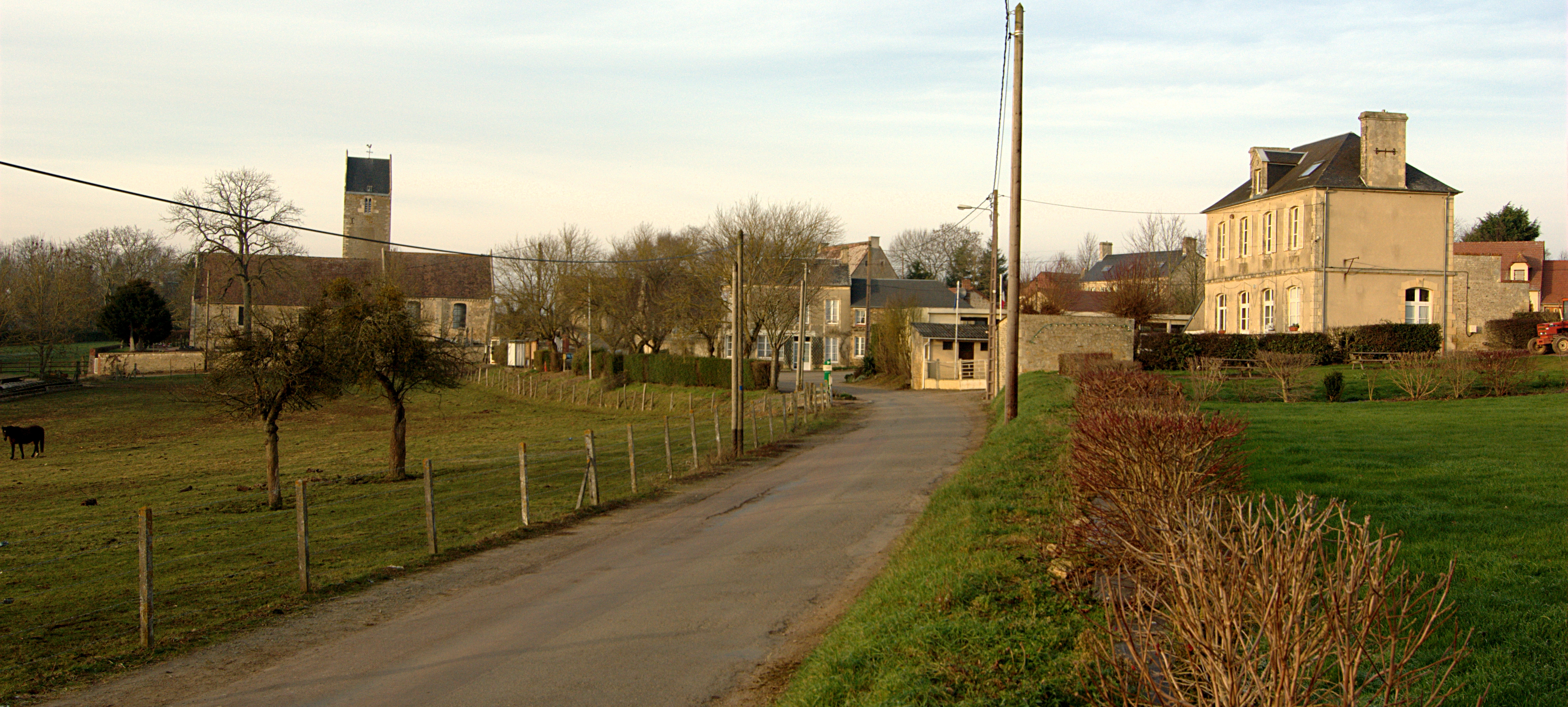 Part of view Maizet village.